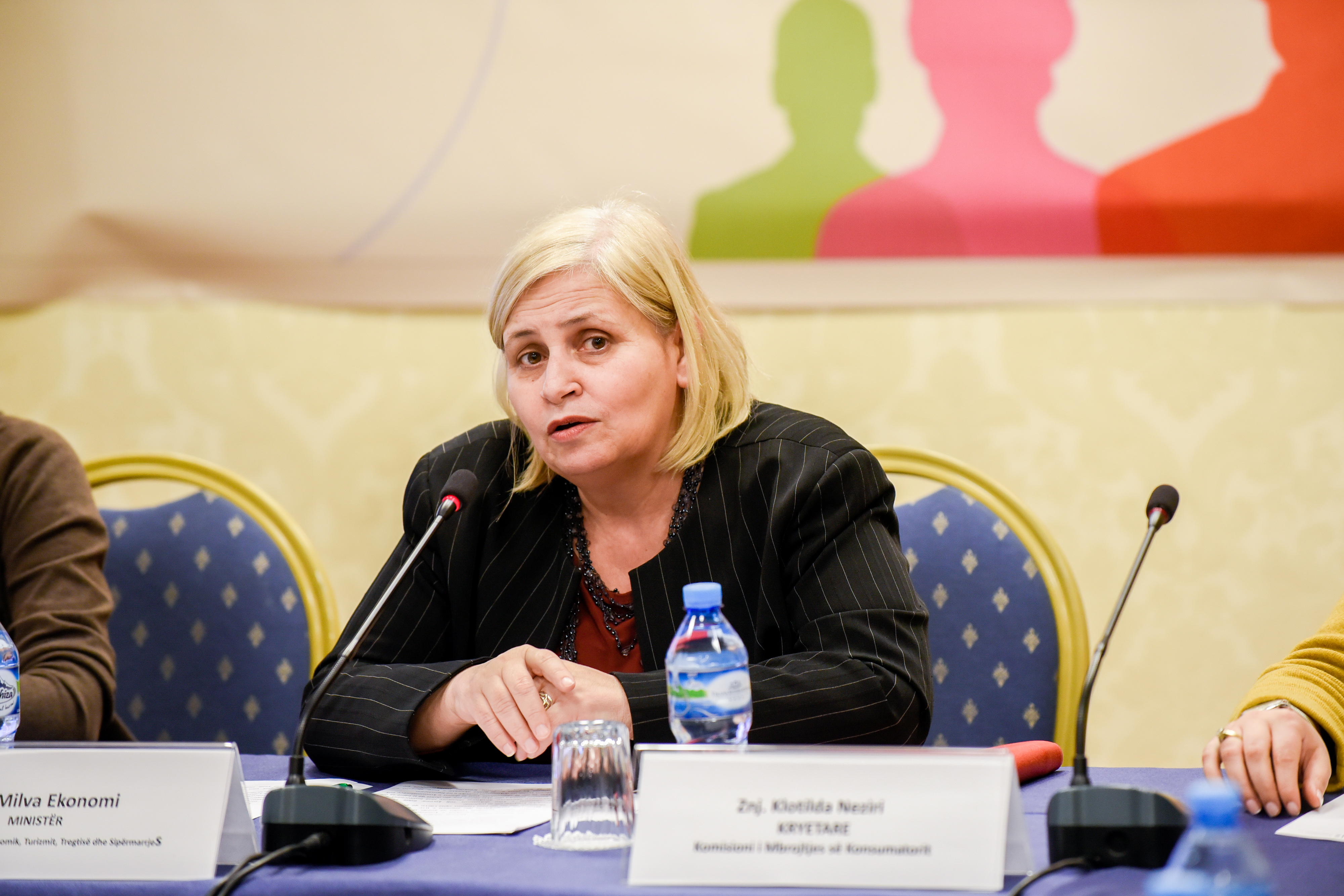 Minister Milva Ekonomi during Consumer Day in Tirana, Albania